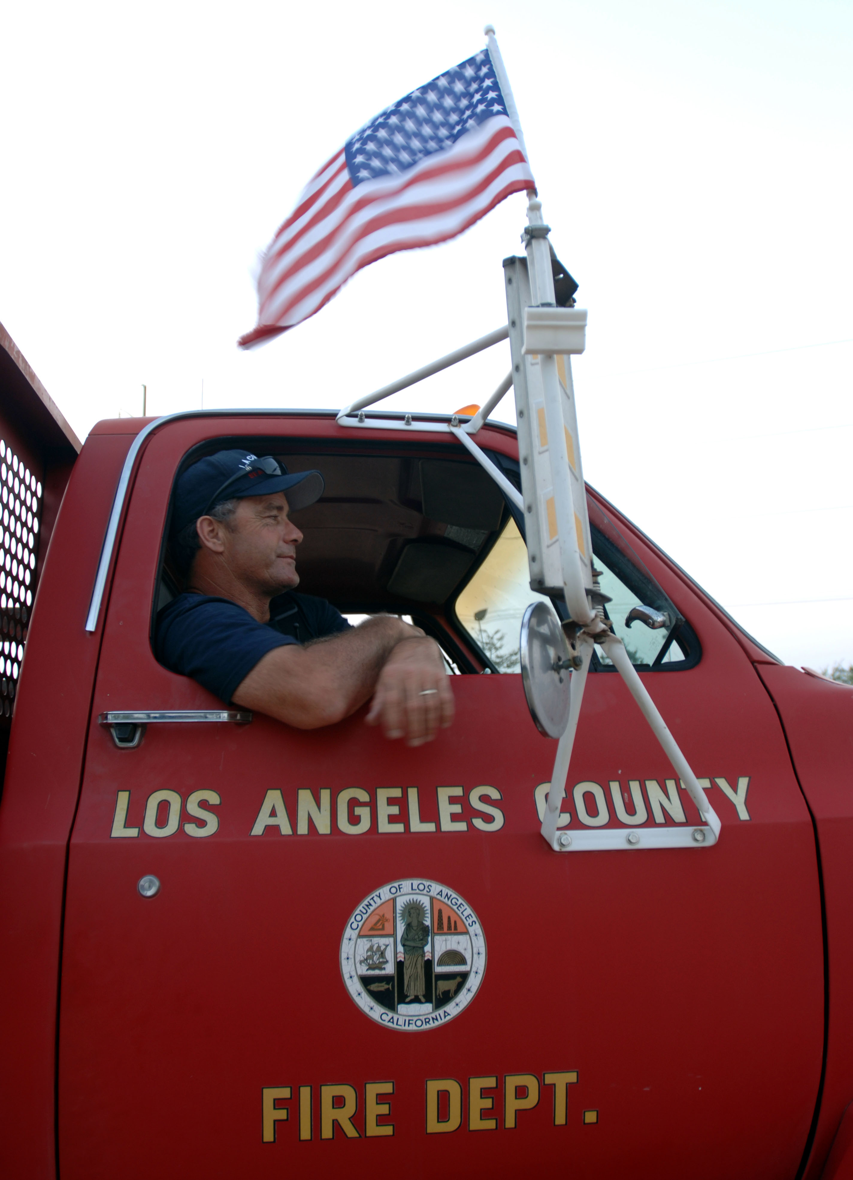 New Orleans, LA, September 10, 2005 -- Members of the FEMA Urban Search and Rescue team wait for their vehicles to be decontaminated at base camp after being in areas impacted by Hurricane Katrina.